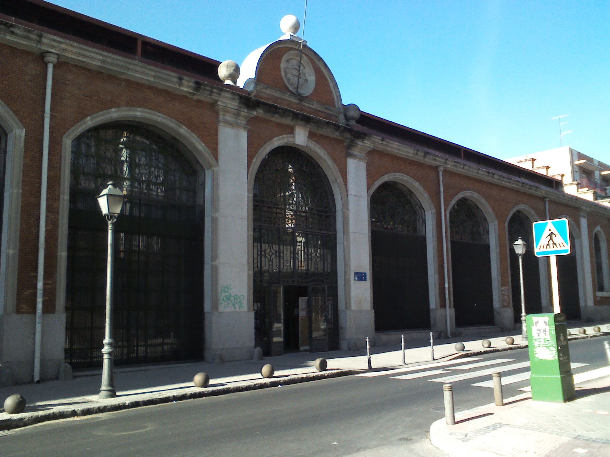 Centro Cultural de Mayores Francisco de Goya